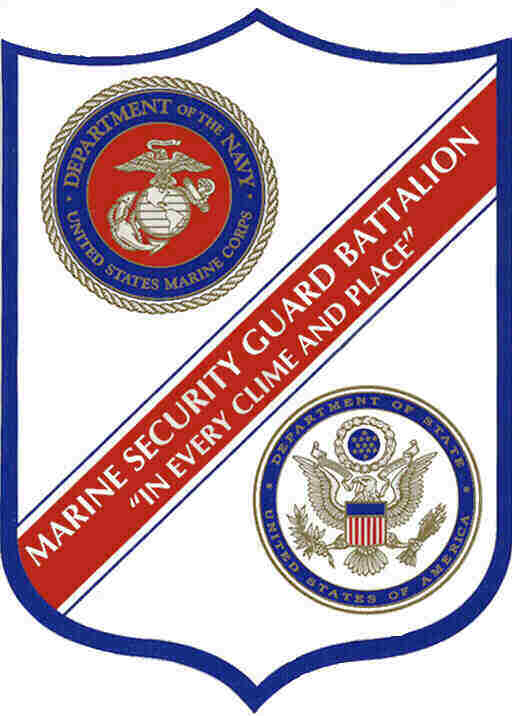 Shield of the United States Marine Corps Security Guard